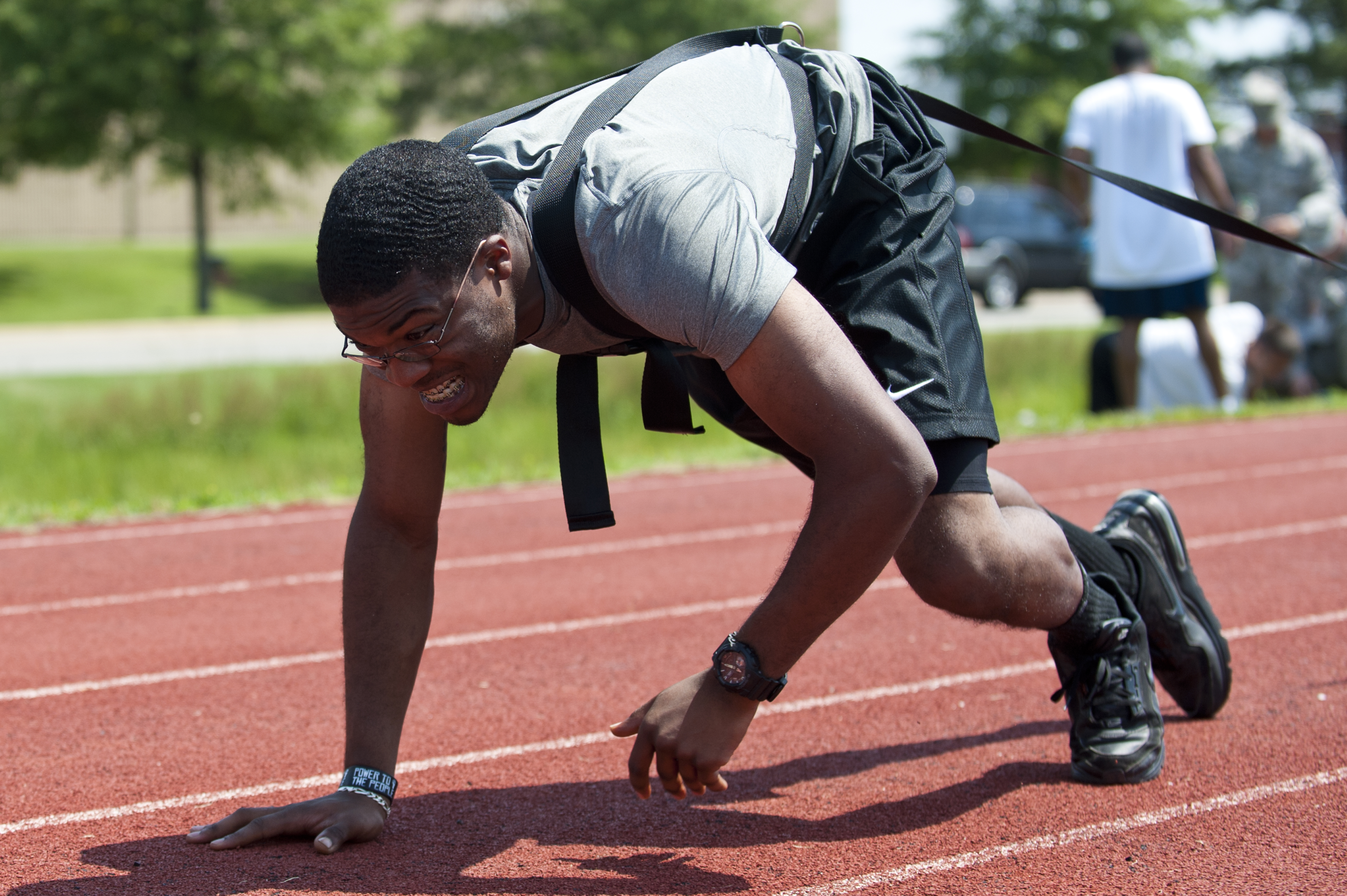 U.S. Air Force Airman 1st Class Stefaugn Waters, 633rd Force Support Squadron career development technician, performs a weighted bear-crawl exercise during the annual Squadron Fitness Challenge at Langley Air Force Base, Va., May 24, 2012. The Squadron Fitness Challenge takes place during May Fitness Month, which promotes living a healthier lifestyle.